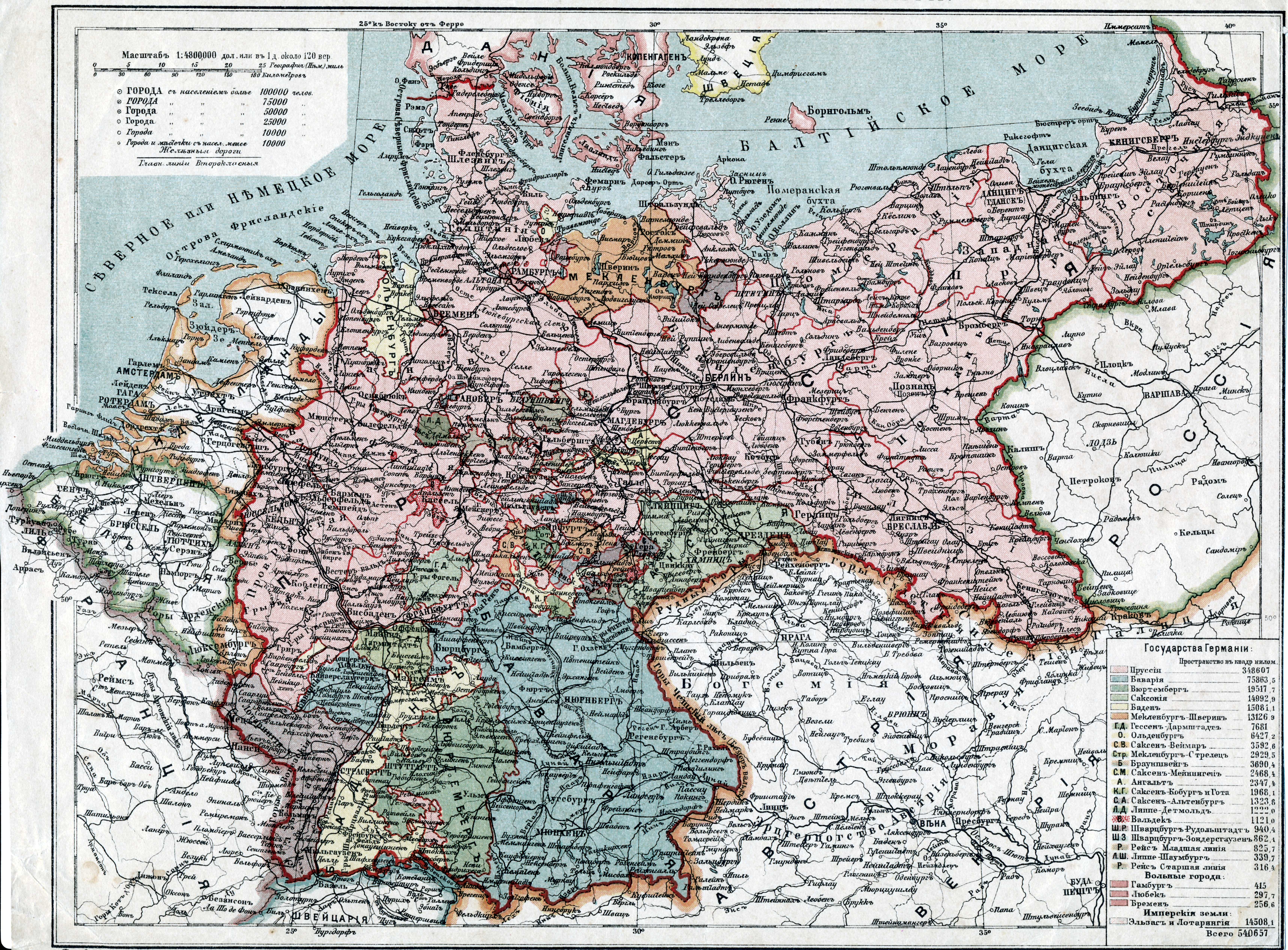 Map of Germany, the end of the nineteenth century.